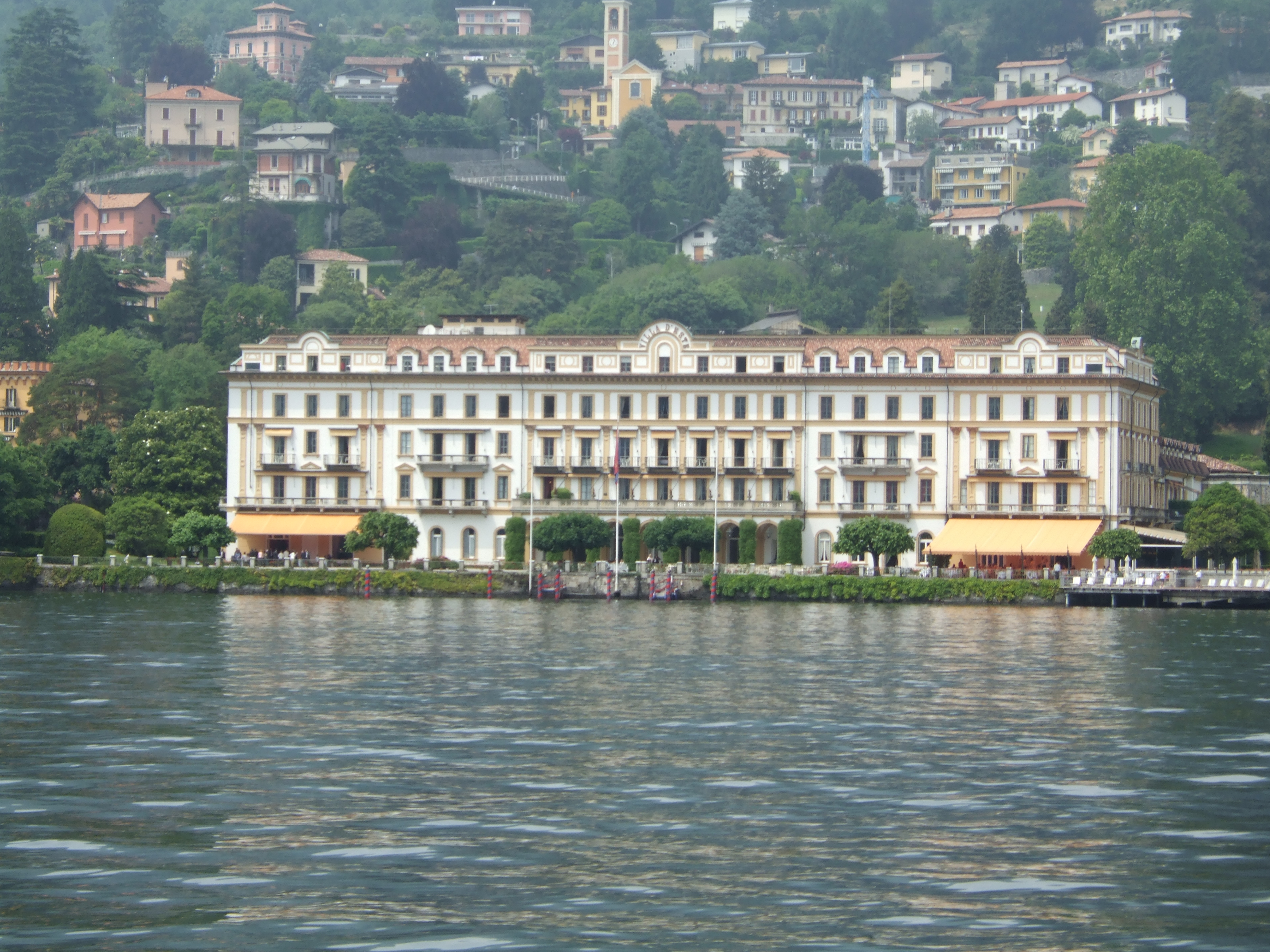 Villa d'Este at Cernobbio frome the Larius Lake